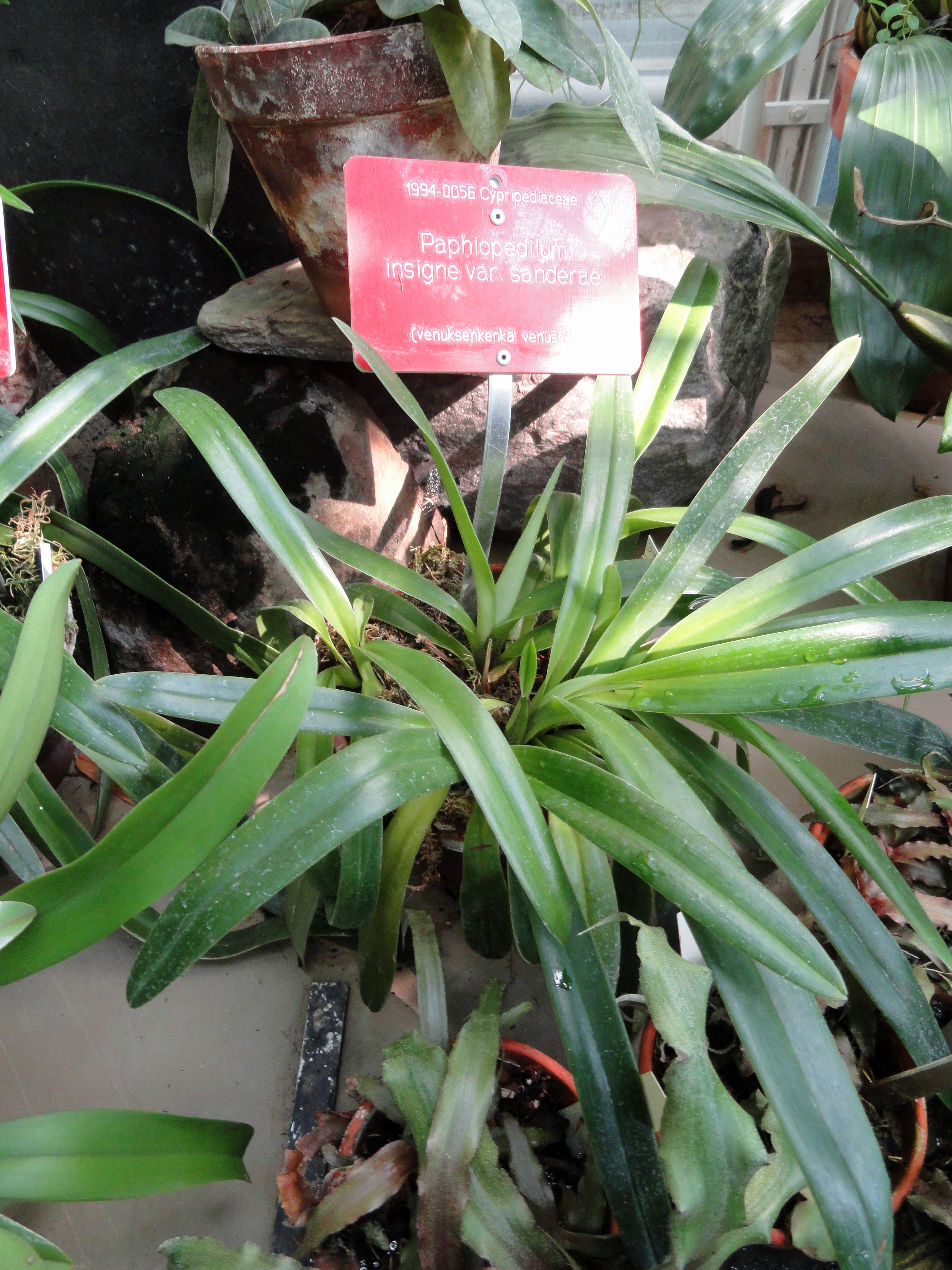 Botanical specimen. The University of Helsinki Botanical Garden at Kaisaniemi